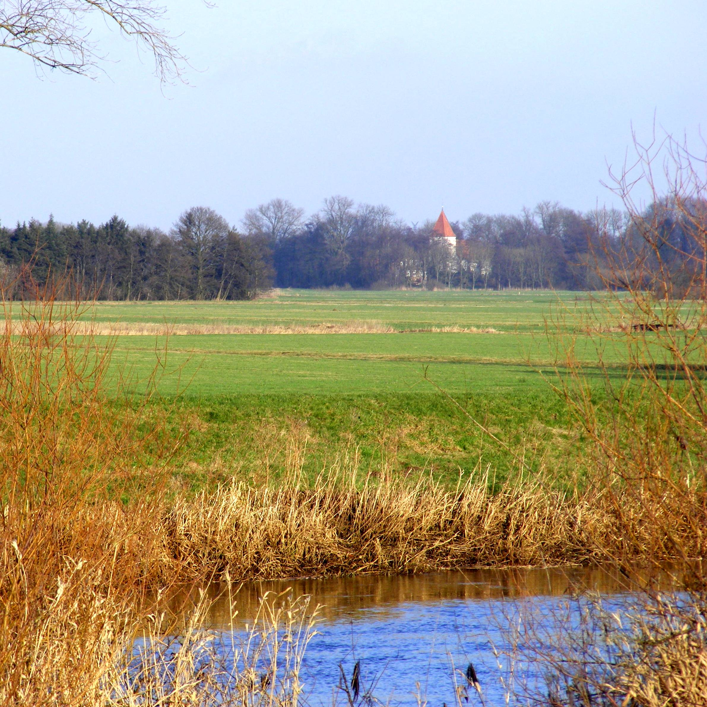 St.-Jürgenskirche west of Lilienthal, seen across the Wümme from the dike of Niederblockland in Bremen.